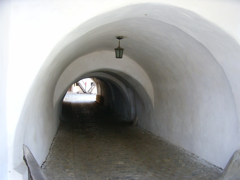 The fortress church's entrance tunnel on Prejmer